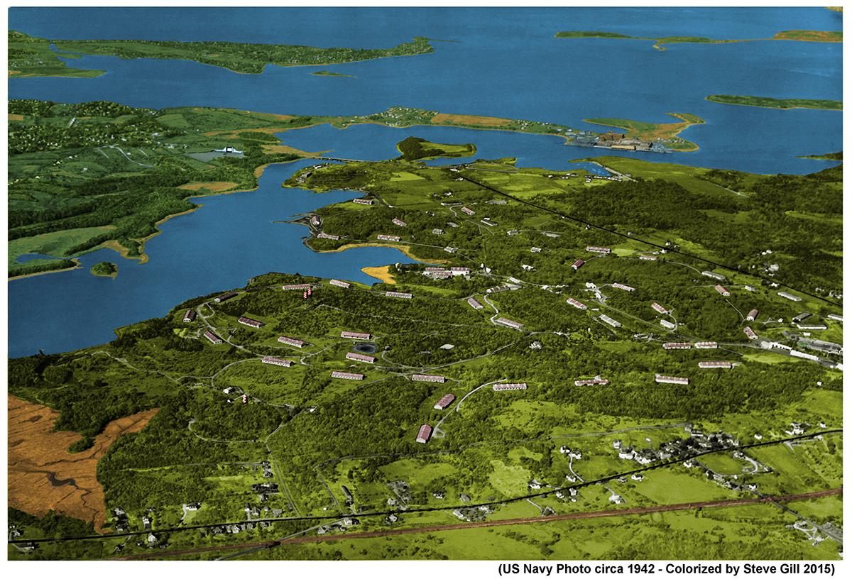 Original NARA B&W